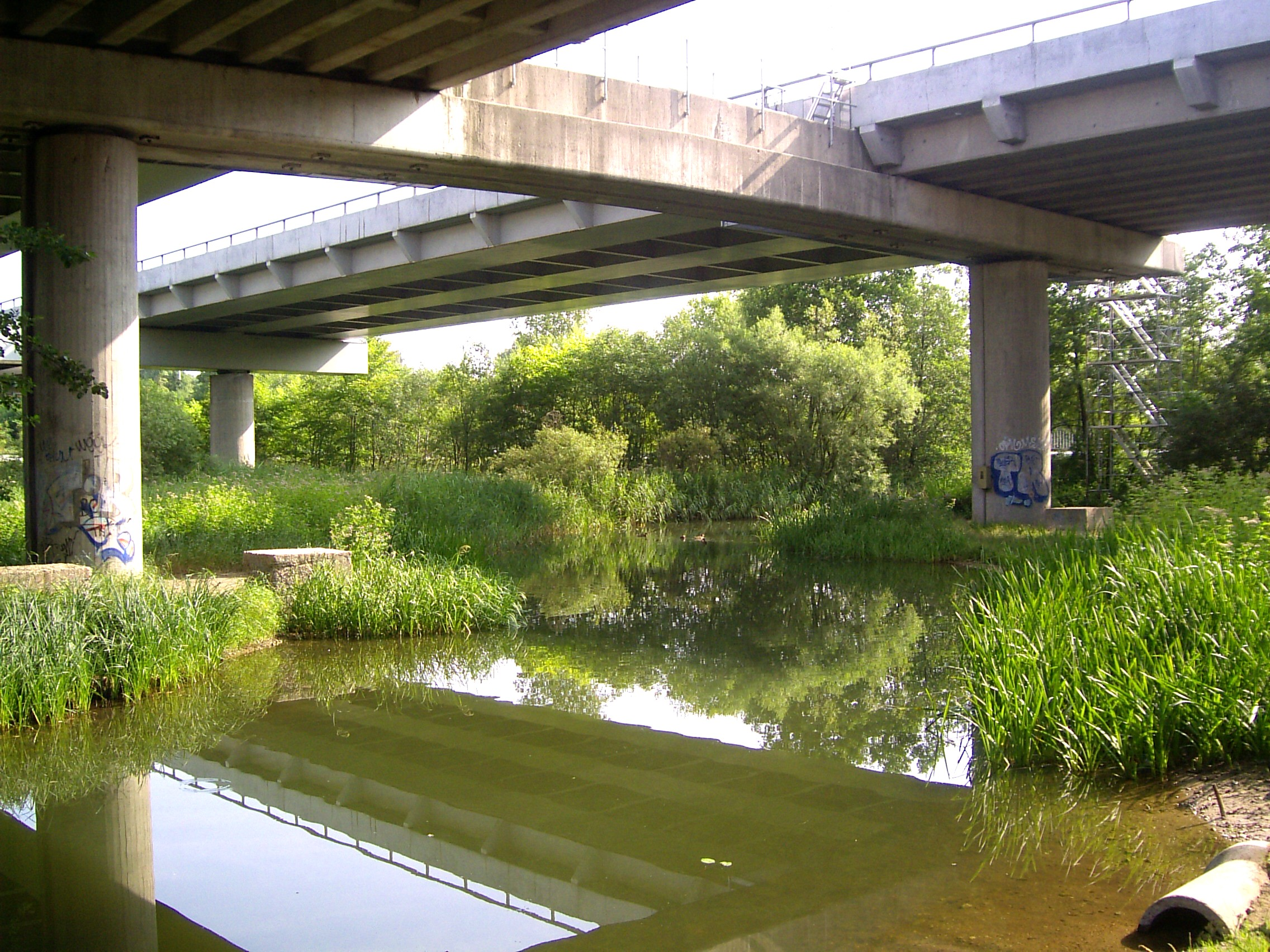 the highway bridge Fiskebækbroen leading over the stream Mølleå between the lakes Farum Sø and Furesø near Farum, Denmark